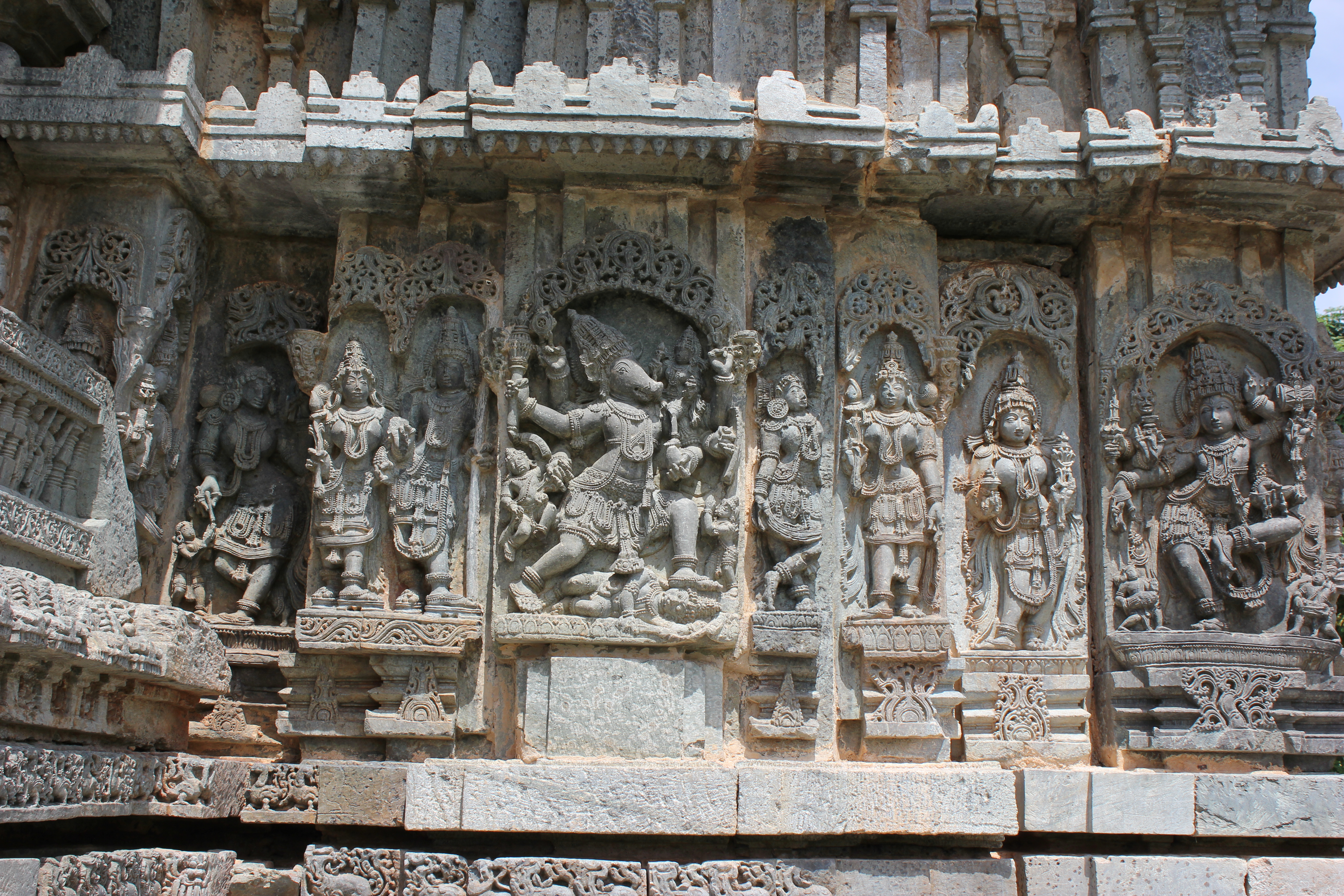 This photograph was taken at the Kedareshwara Temple (also spelt "Kedaresvara" or "Kedareshvara") in Halebidu, in the Hassan district of Karnataka state, India. The temple was constructed by Hoysala King Veera Ballala II (r. 1173-1220 A.D.) and his queen Ketaladevi.